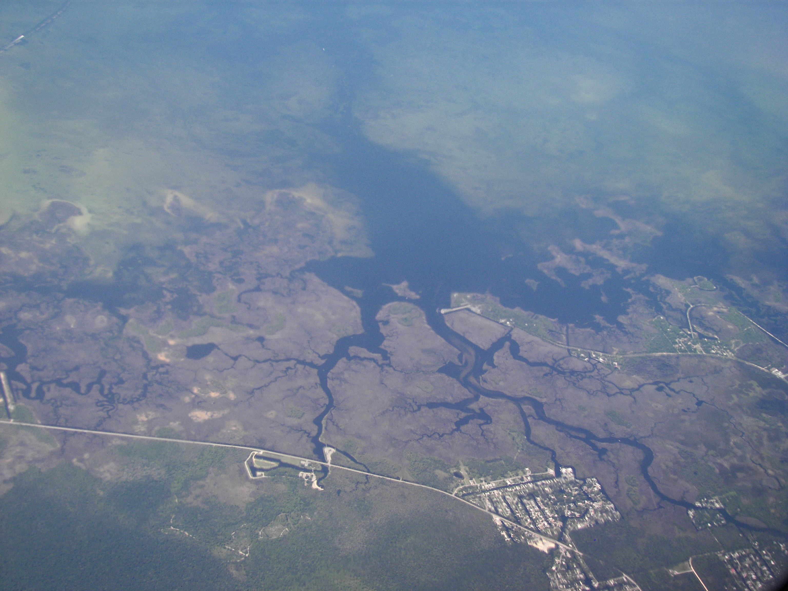 Aerial view of coastal Hernando County, Florida including Weeki Wachee Gardens to the bottom-right and Bayport to the middle-right. The bottom left is likely a portion of the Weekiwachee Preserve.